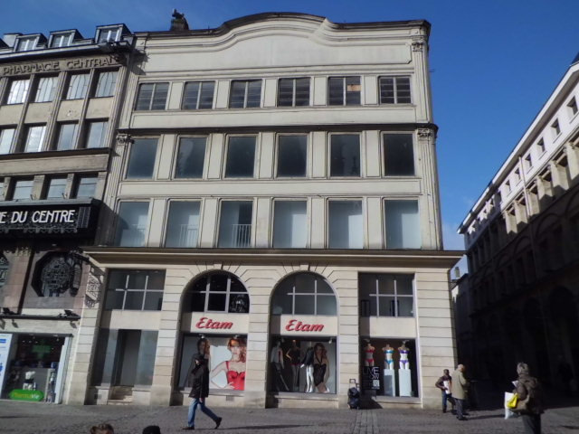 Number 31, place de la Cathédrale, Rouen, Normandy